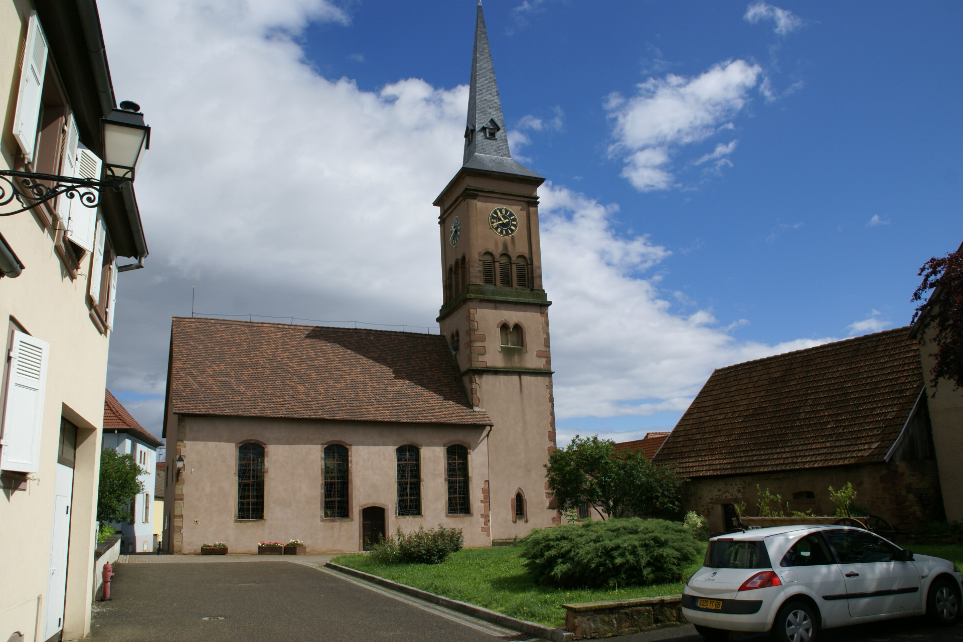 Church in Goxwiller, Alsace, France